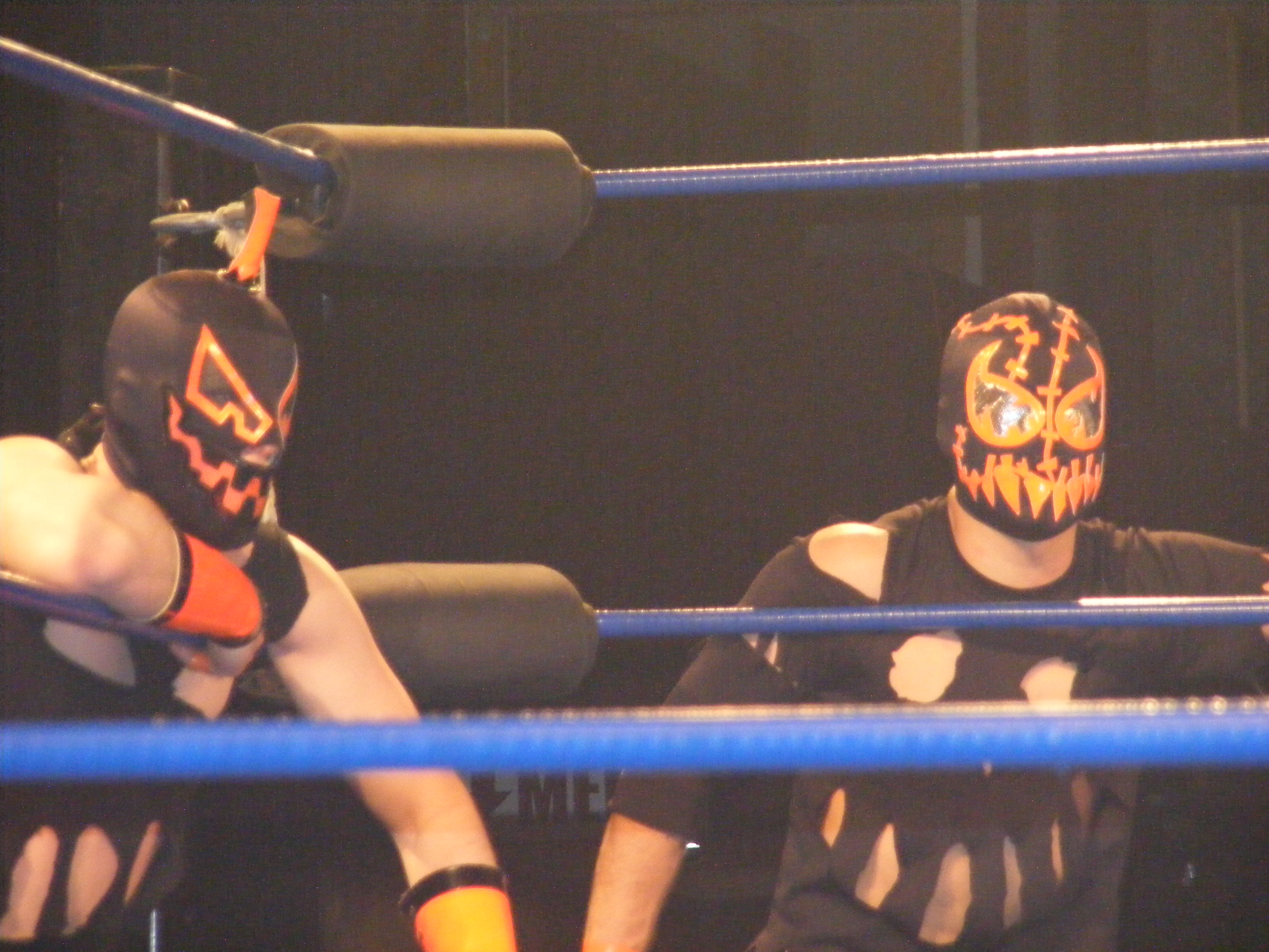 Professional wrestlers Hallowicked and Frightmare at Chikara's 2010 King of Trios